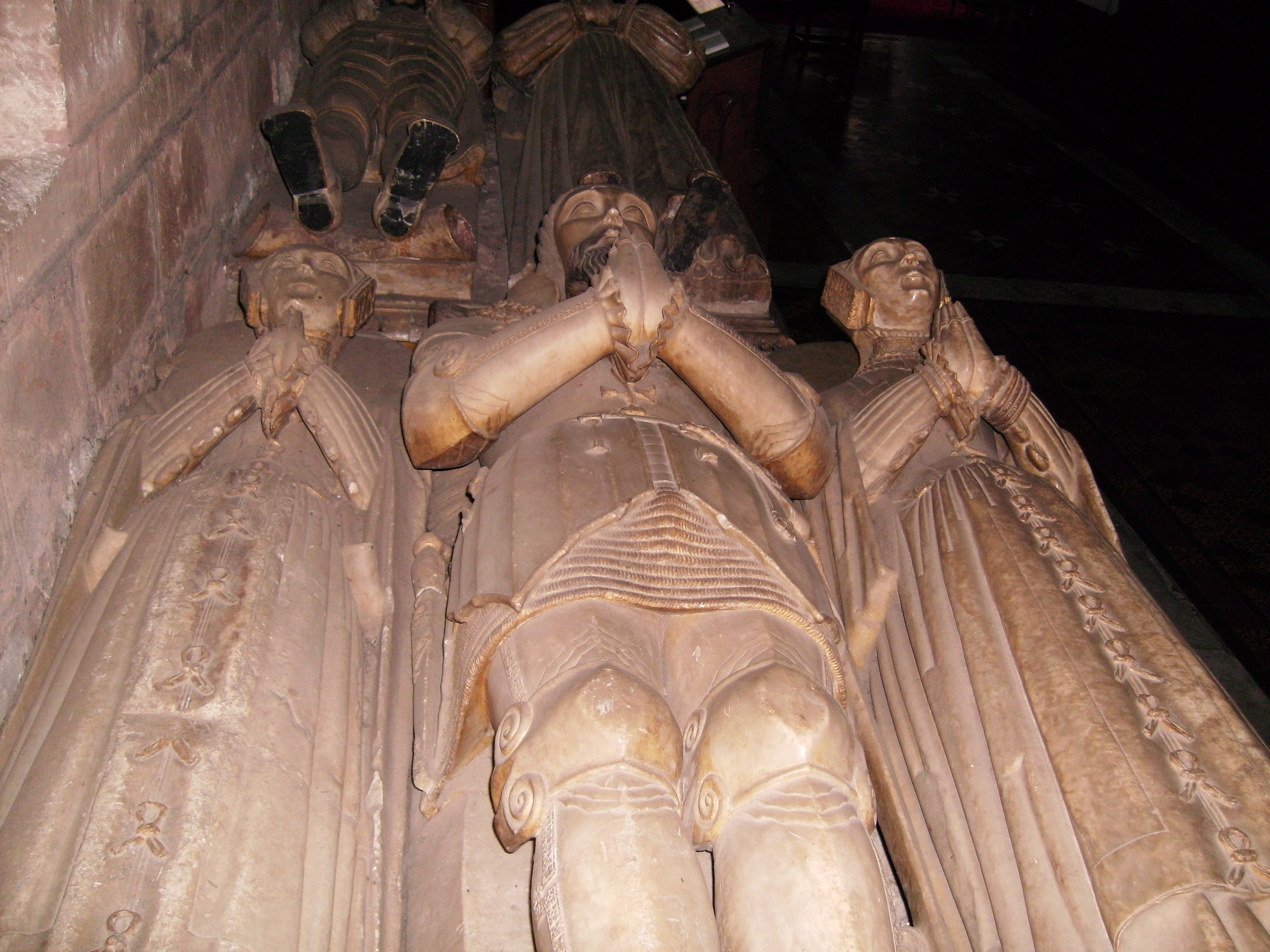 Sir John Giffard, died 1556, with his wives Jane and Elizabeth. A notable Catholic gentleman, buried in St Mary and St Chad's church, Brewood, Staffordshire, England.